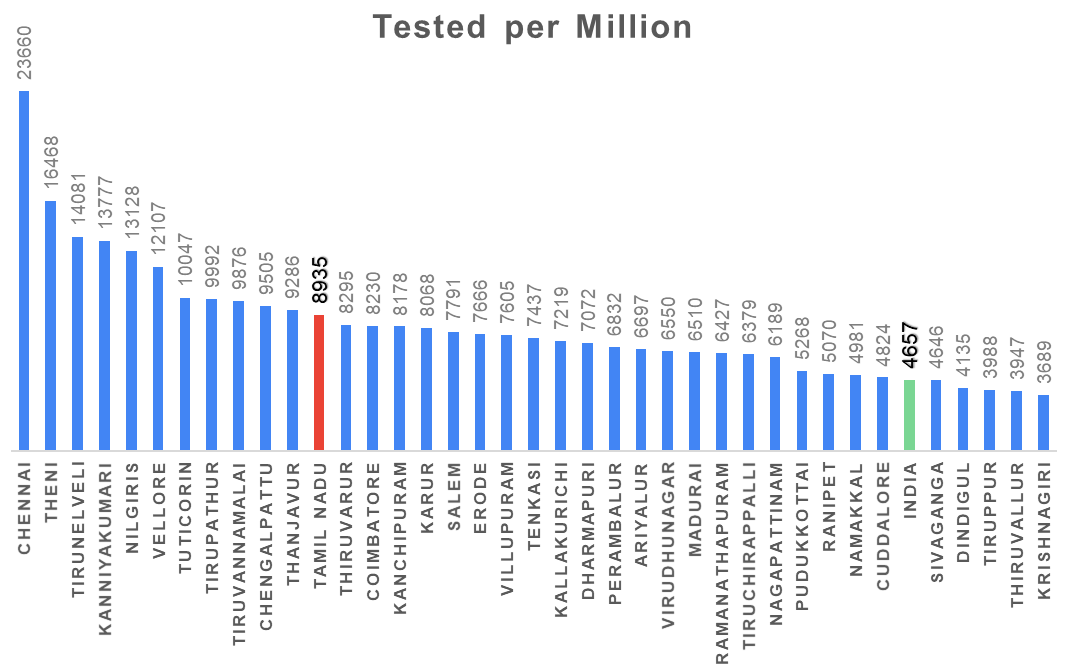 Tested per million in the districts of Tamil Nadu as of 20/06/2020. Figures are based on the entries made by the ICMR approved RT-PCR testing labs in the ICMR web Portal. It may be incomplete as the entry of remaining records in to the ICMR web portal was not complete at the time. Data source